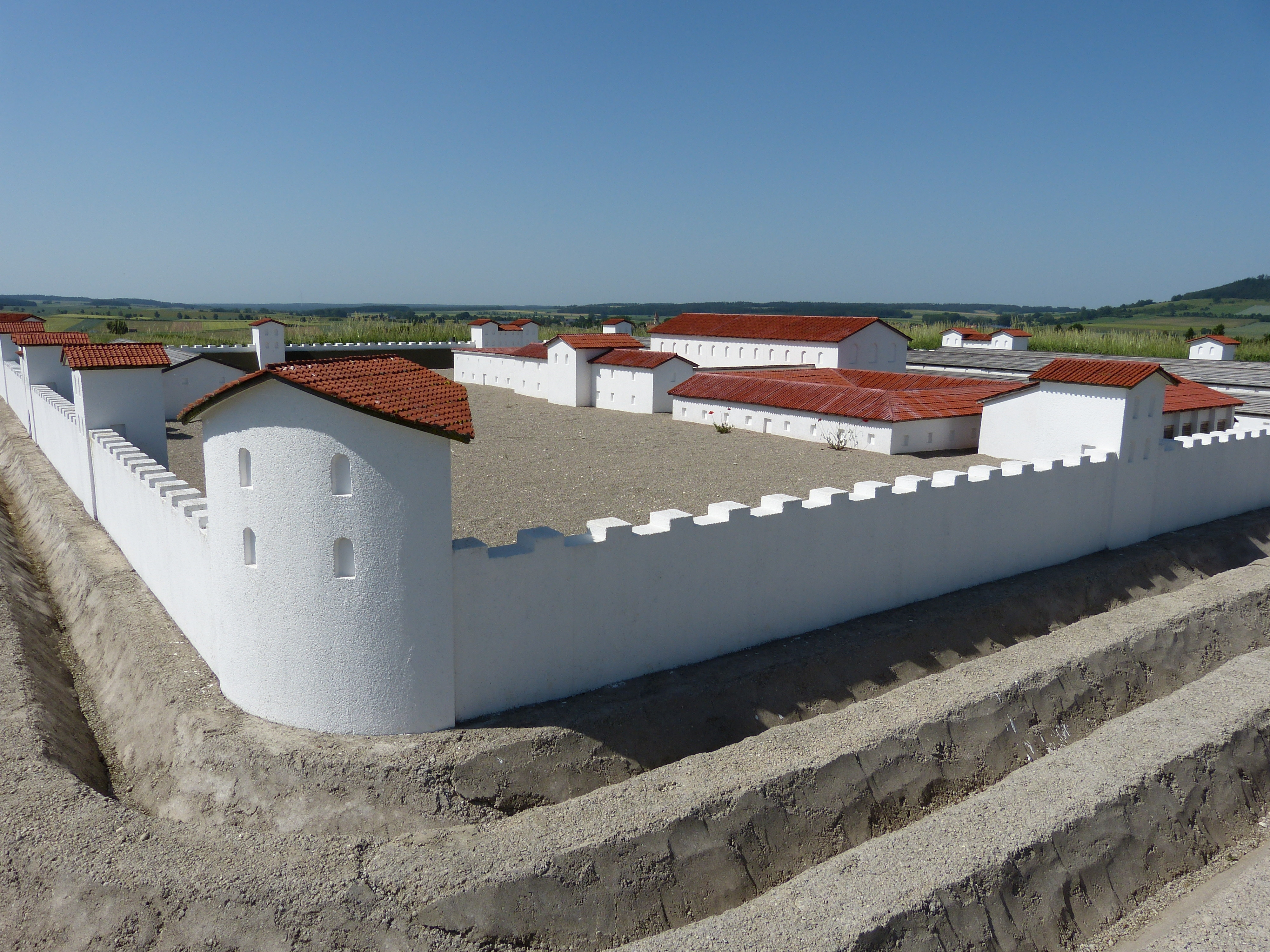 Weiltingen ( Bavaria ). Archaeological park Ruffenhofen: Open air model of the ancient Roman fort ( detail ).